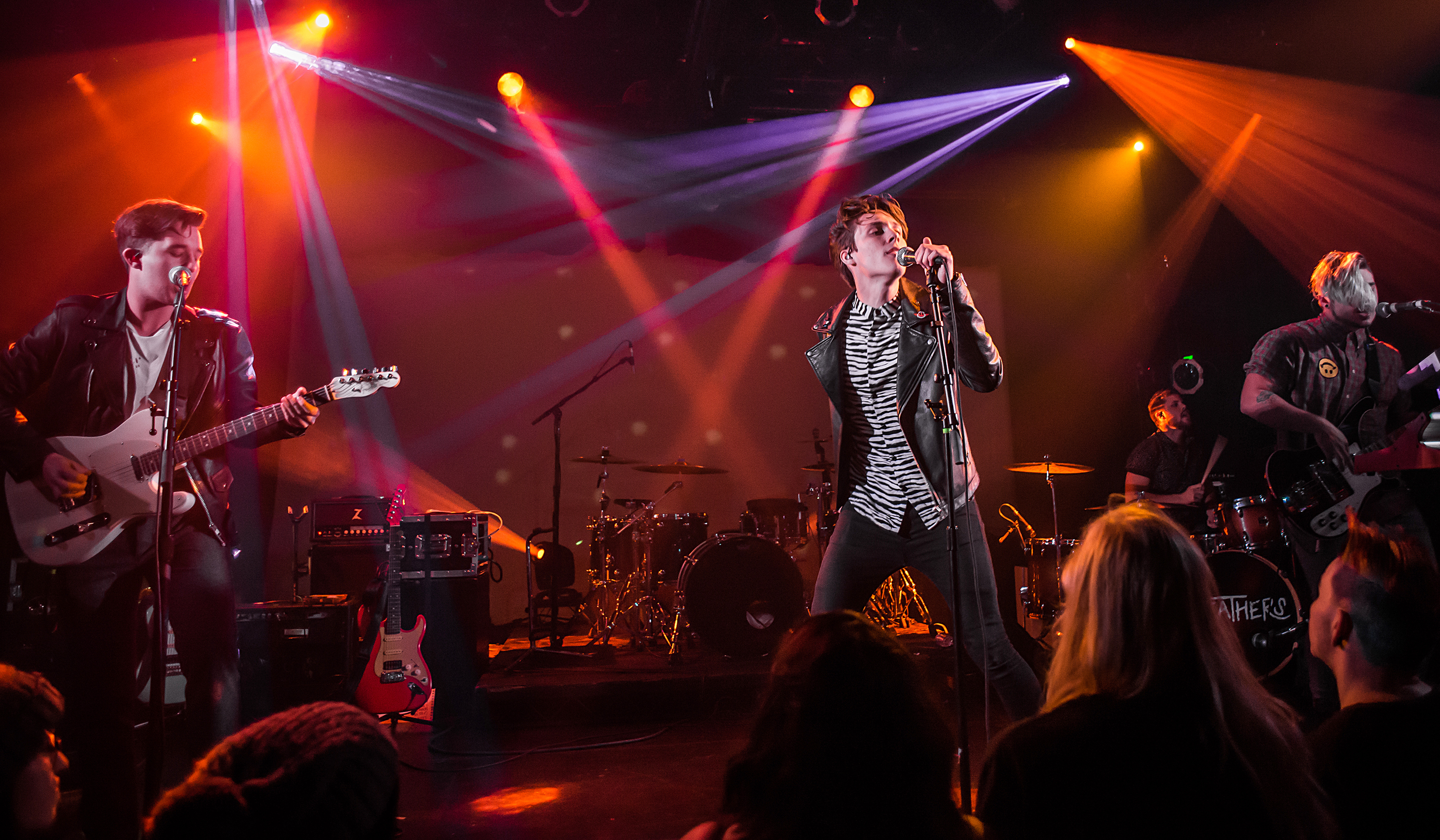 Weathers performing at the Echoplex